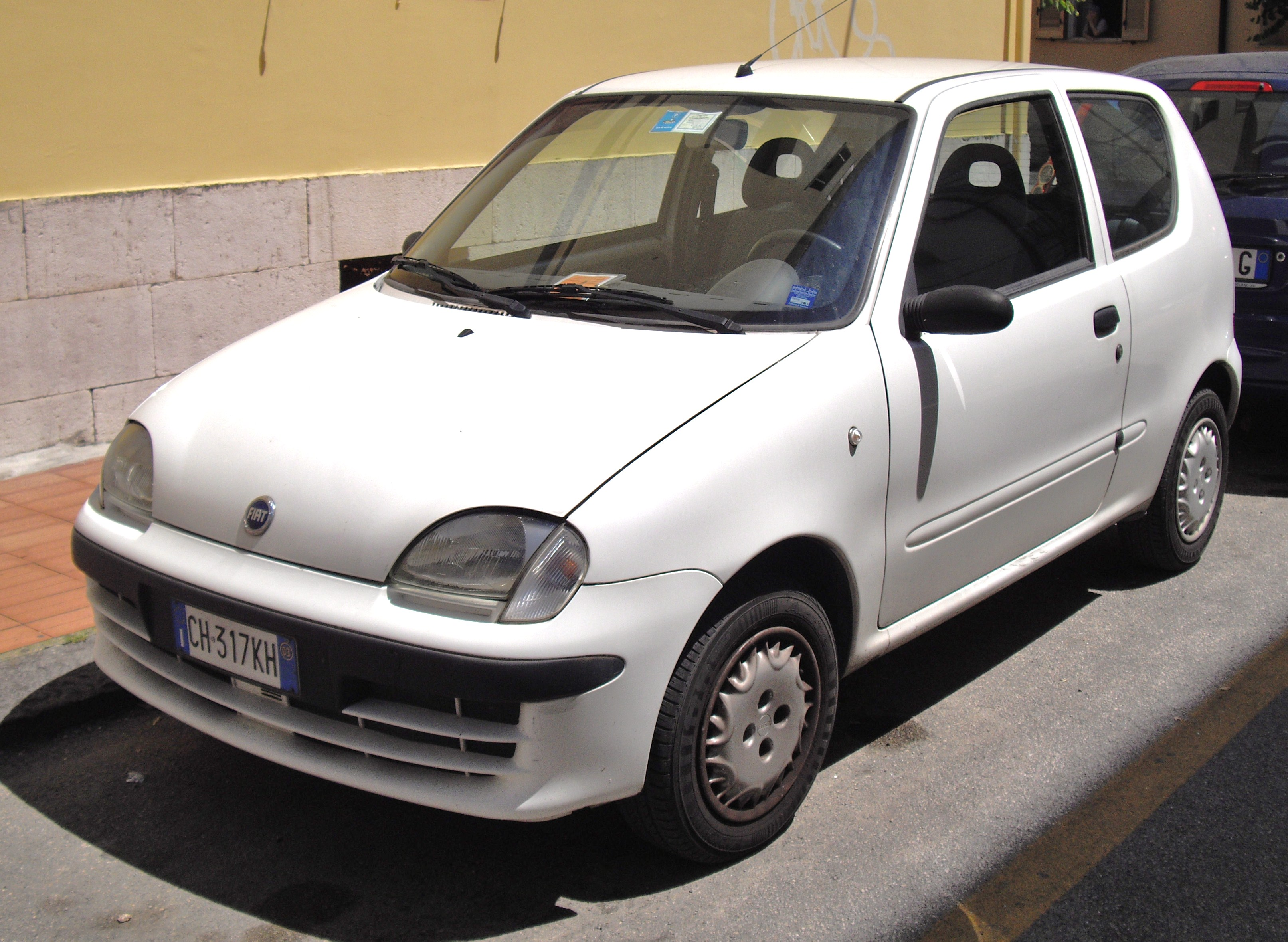 Fiat Seicento car in Italy.